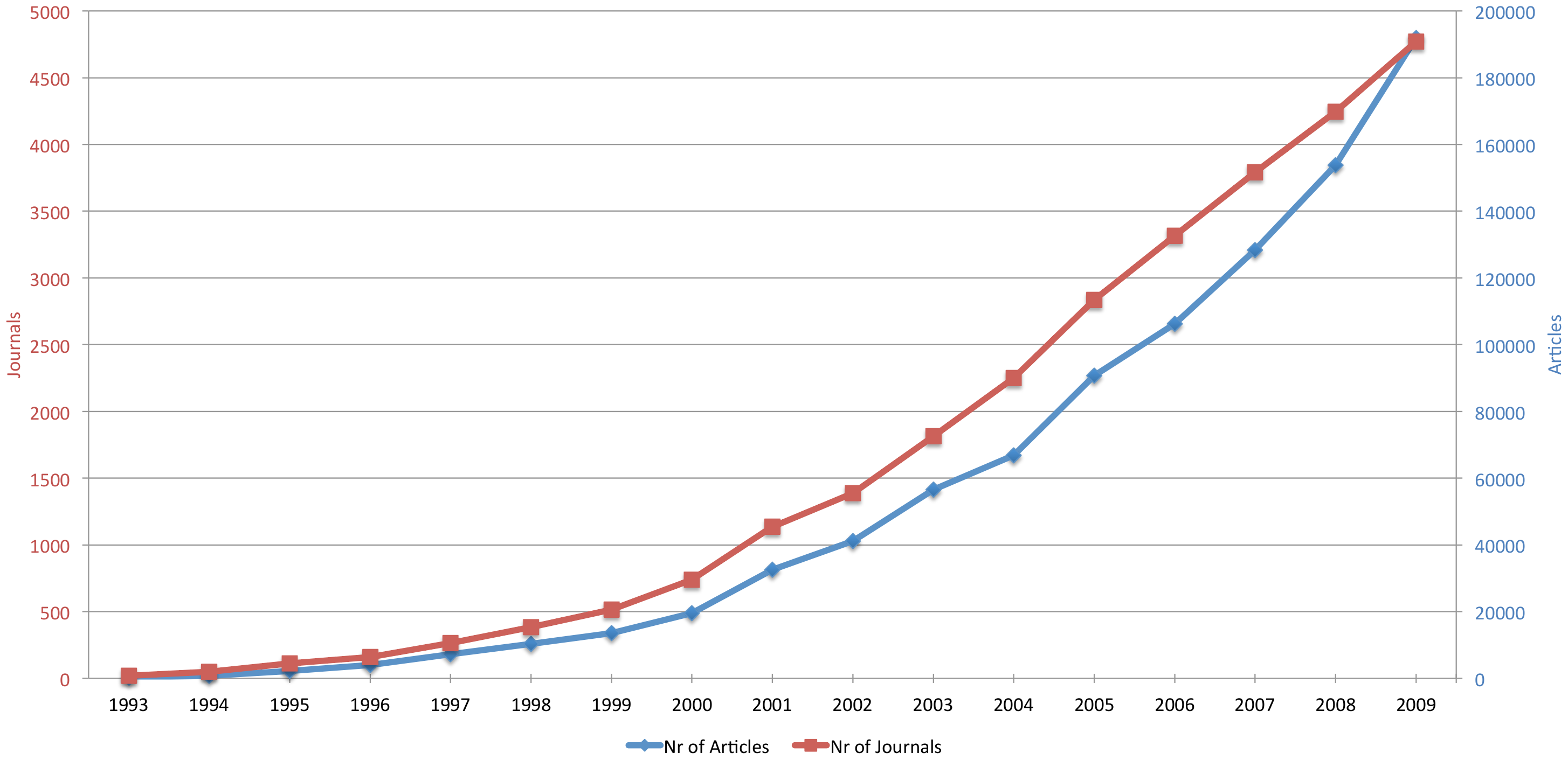 A chart which shows the development of Open Access from 1993 to 2009.